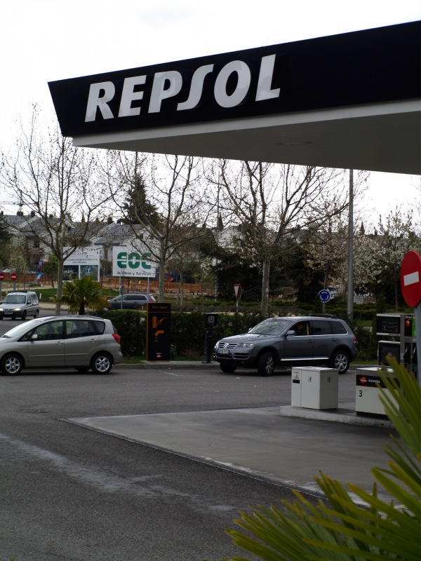 Repsol Petrol Station in Madrid